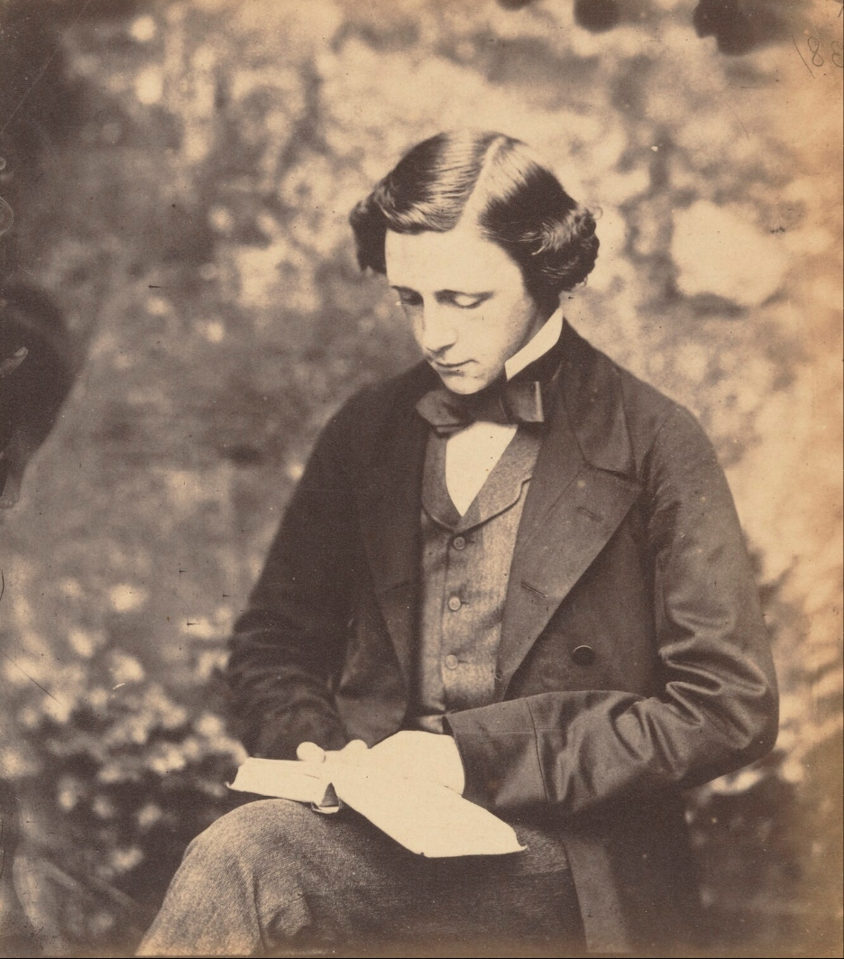 Reginald Southey. Lewis Carroll (Charles Lutwidge Dodgson) albumen print, 2 June 1857, 5 1/2 in. x 4 5/8 in. (140 mm x 117 mm). Purchased with help from Kodak Ltd, 1973.